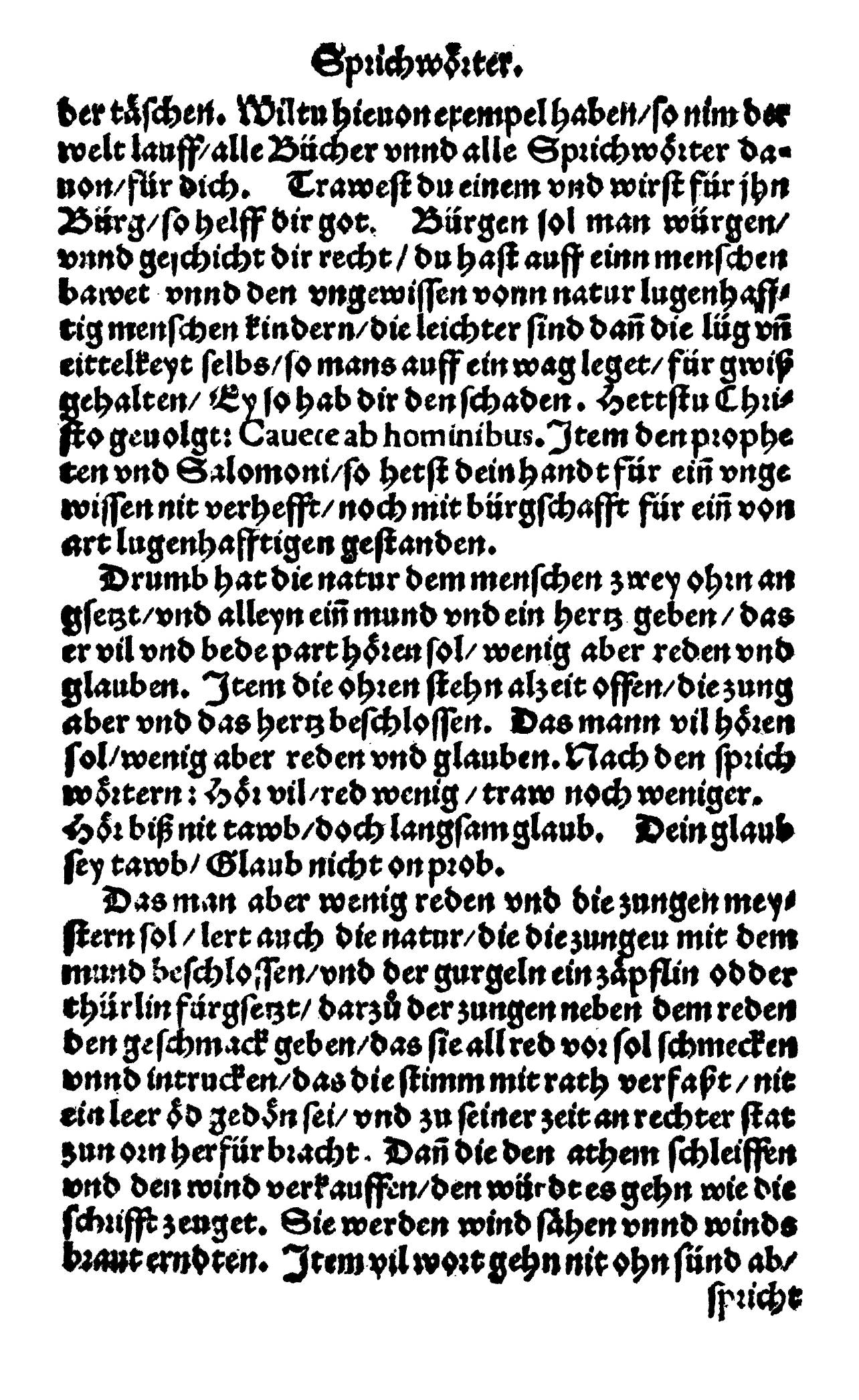 This is a scan of the historical document